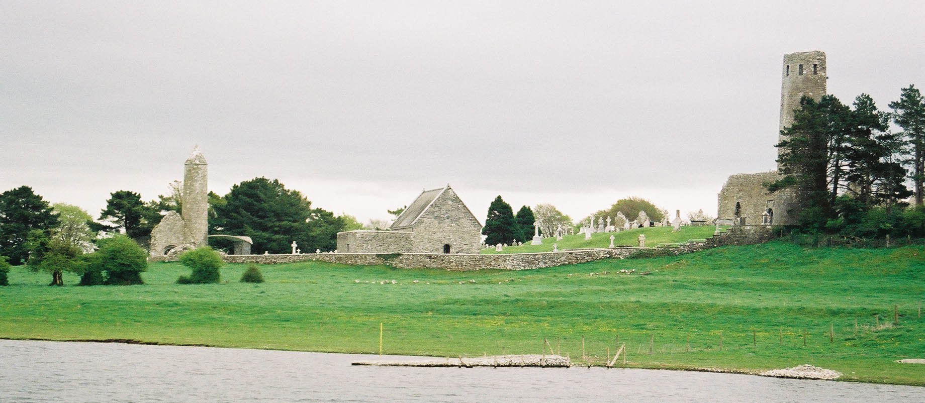 Clonmacnois viewed from the river